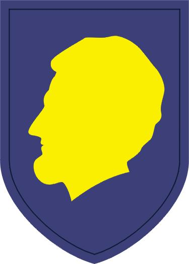 Illinois Army National Guard Element, Joint Force Headquarters Shoulder Sleeve Insignia